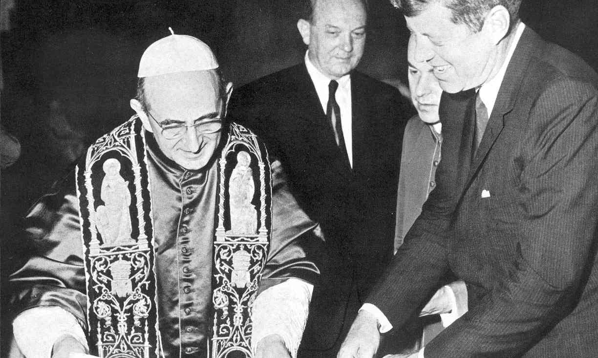 President John F.Kennedy visits Pope Paul VI